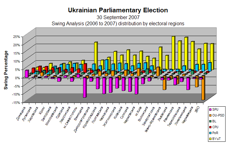 Ukrainian parliamentary election, 2007.